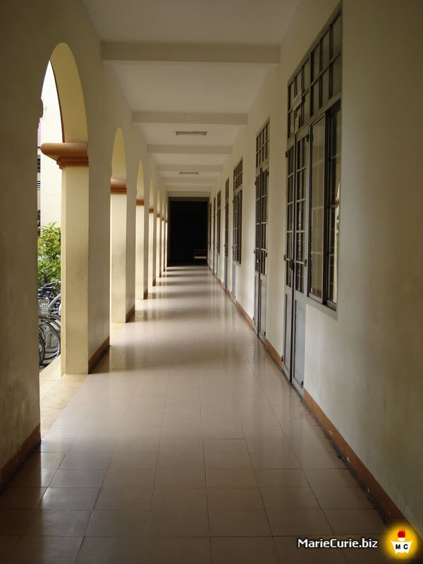 F Block.